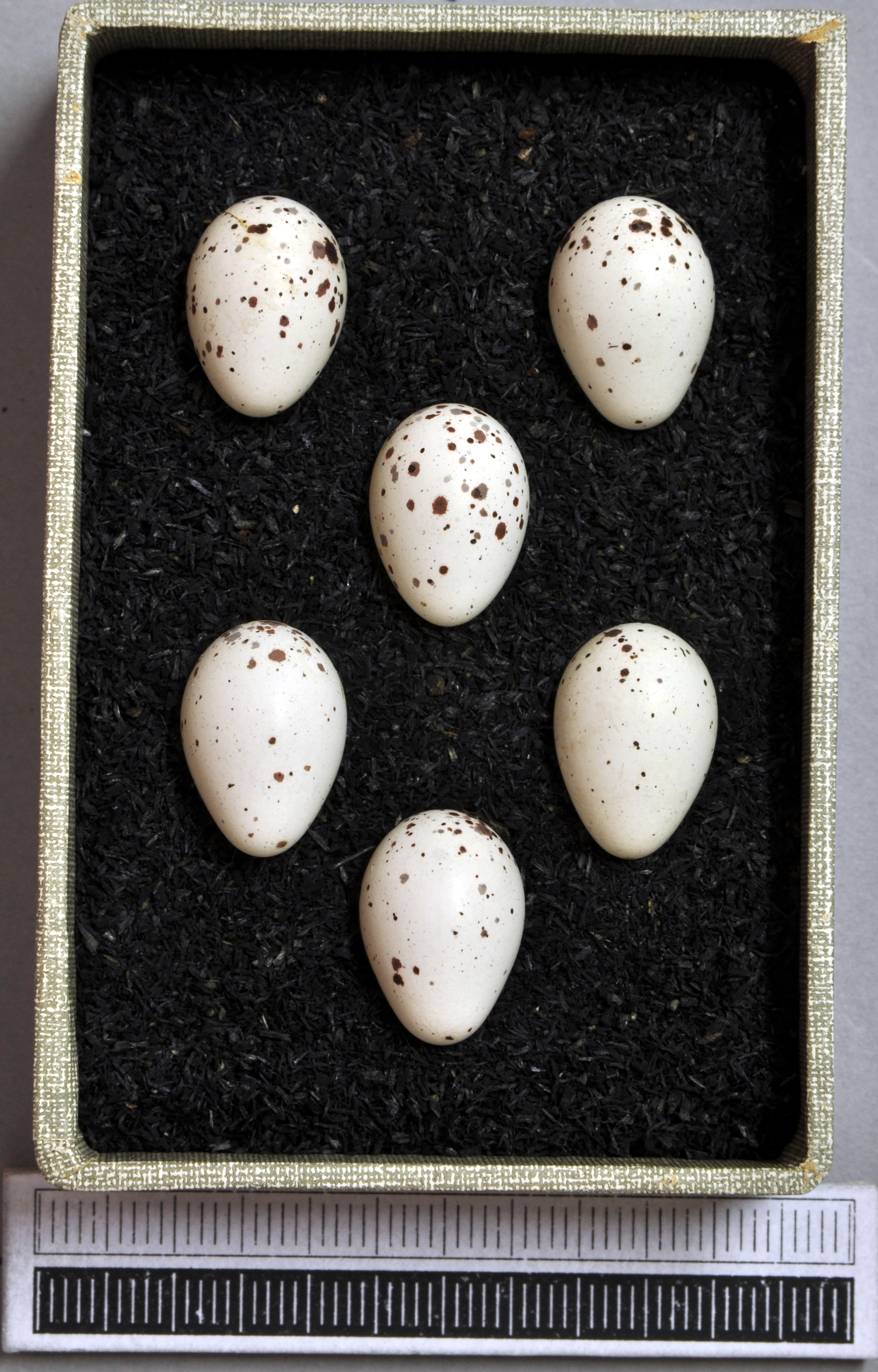 Common chiffchaff Phylloscopus collybita , egg, Coll. Museum Wiesbaden